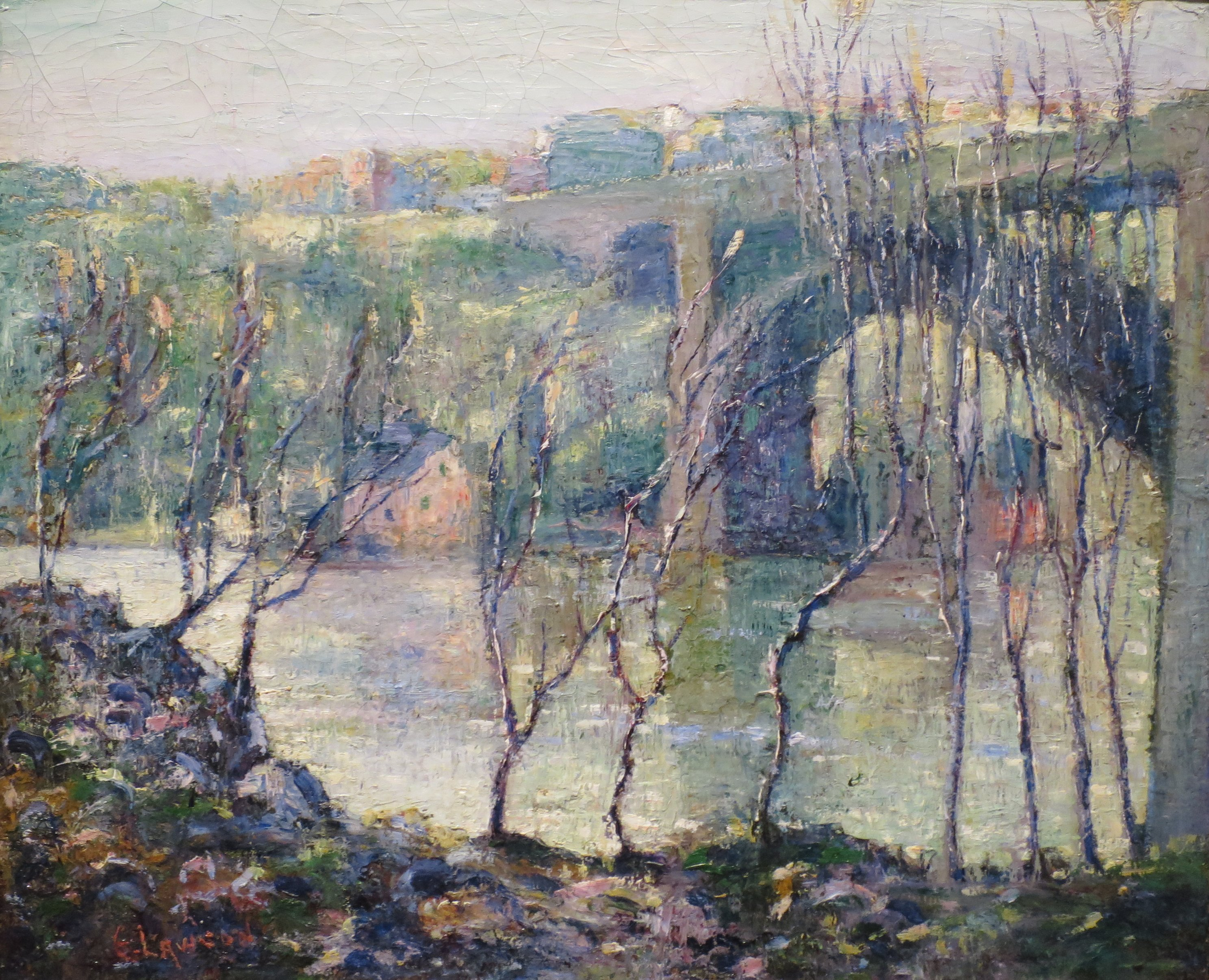 Ernest Lawson - Washington Bridge, Harlem River, c. 1915, oil on canvas, High Museum of Art